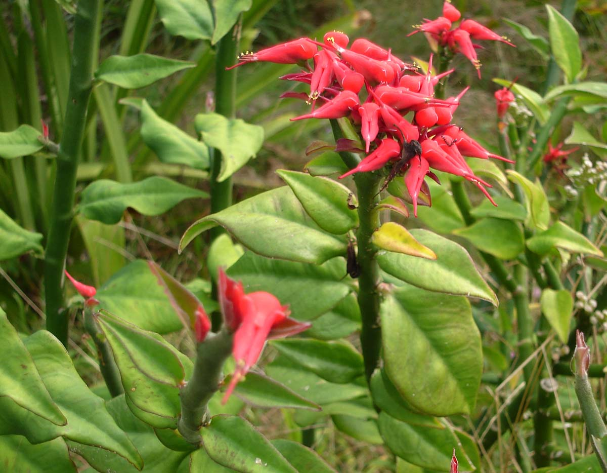 Euphorbia tithymaloides (green leaf variety); a weed in Tonga